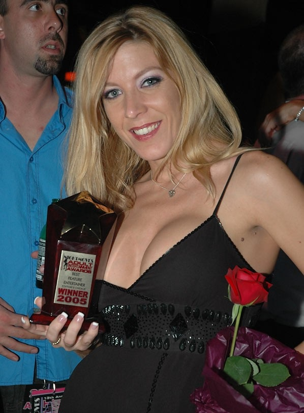 Lexi Lamour holding her Best Feature Entertainer trophy at the 2005 NightMoves Awards Show in Tampa, Florida.